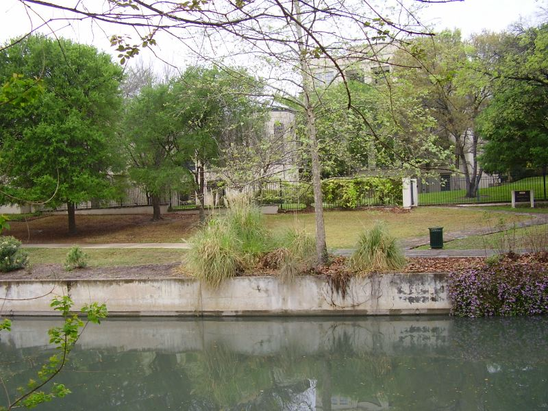 H-E-B headquarters